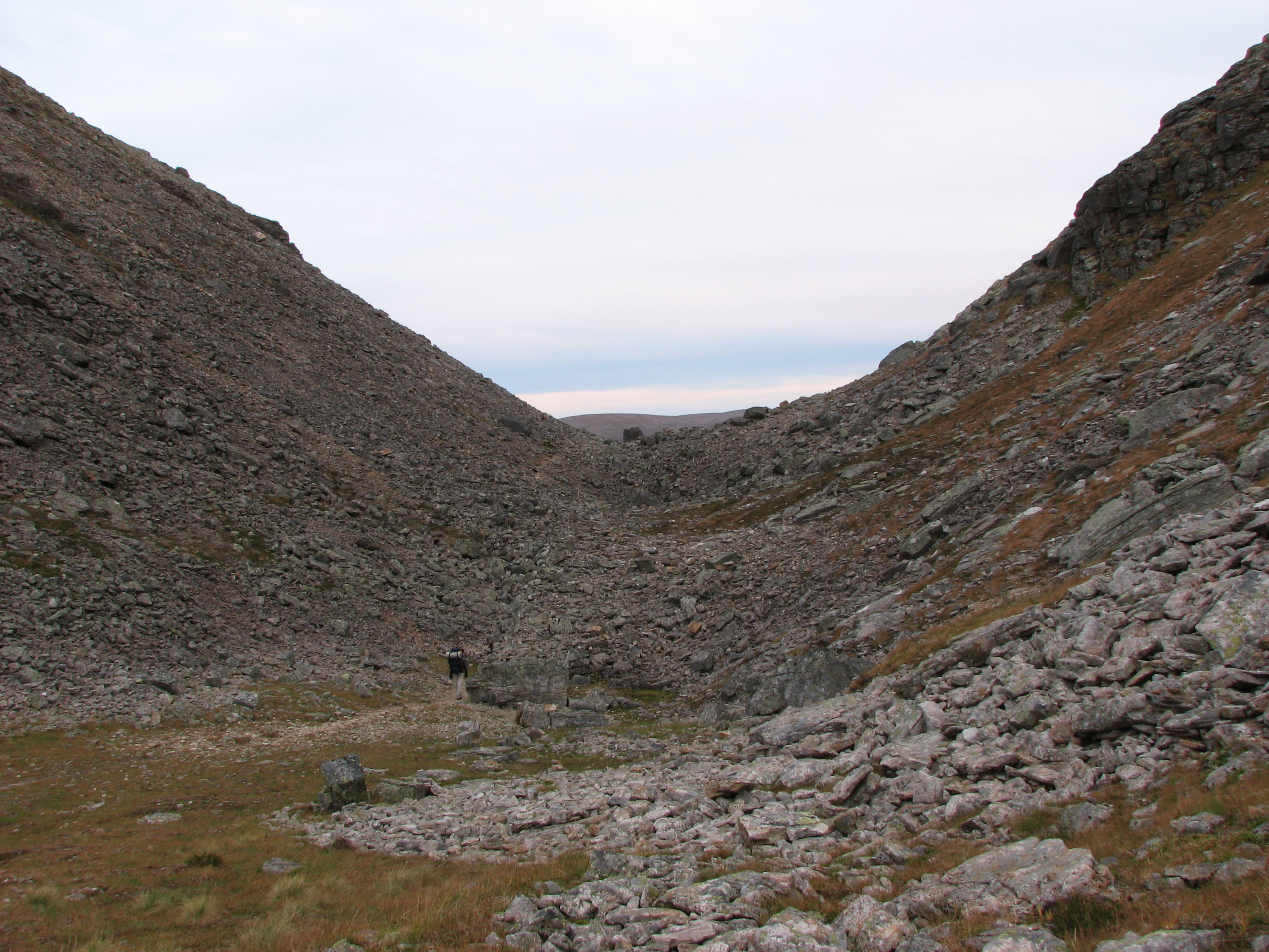 Pirunportti (Devil's Gate), a saddle point in Urho Kekkonen National Park, Sodankylä, Finland.